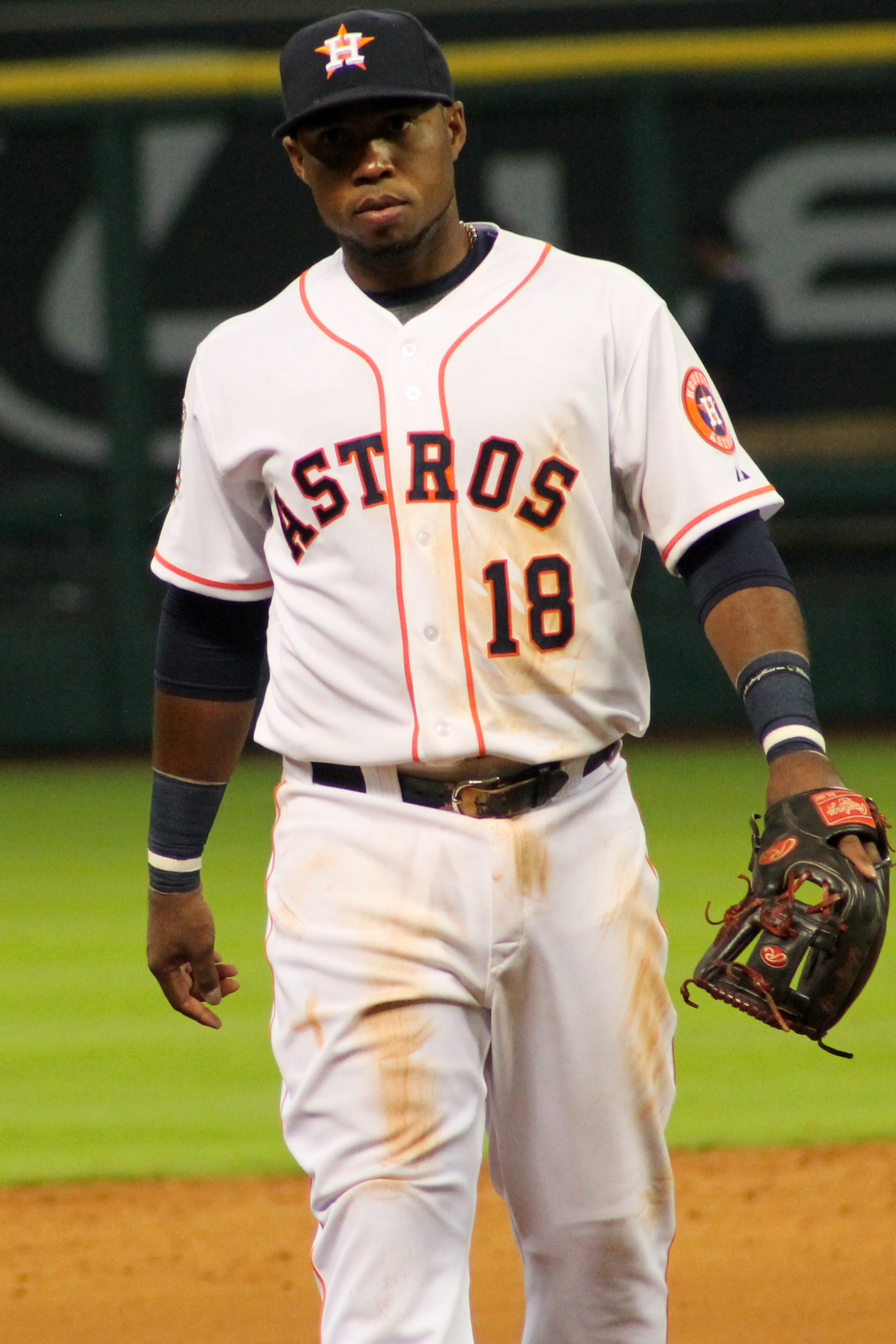 Professional baseball player Luis Valbuena at a game in Houston in April 2015.